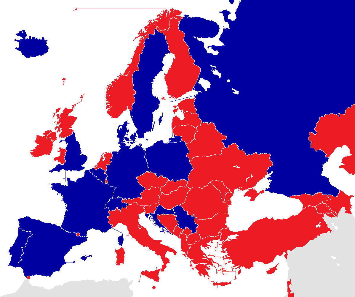 Status of countries with respect to 2018 FIFA World Cup: Team qualified Team may qualify Cannot qualify - eliminated Country is not a UEFA member